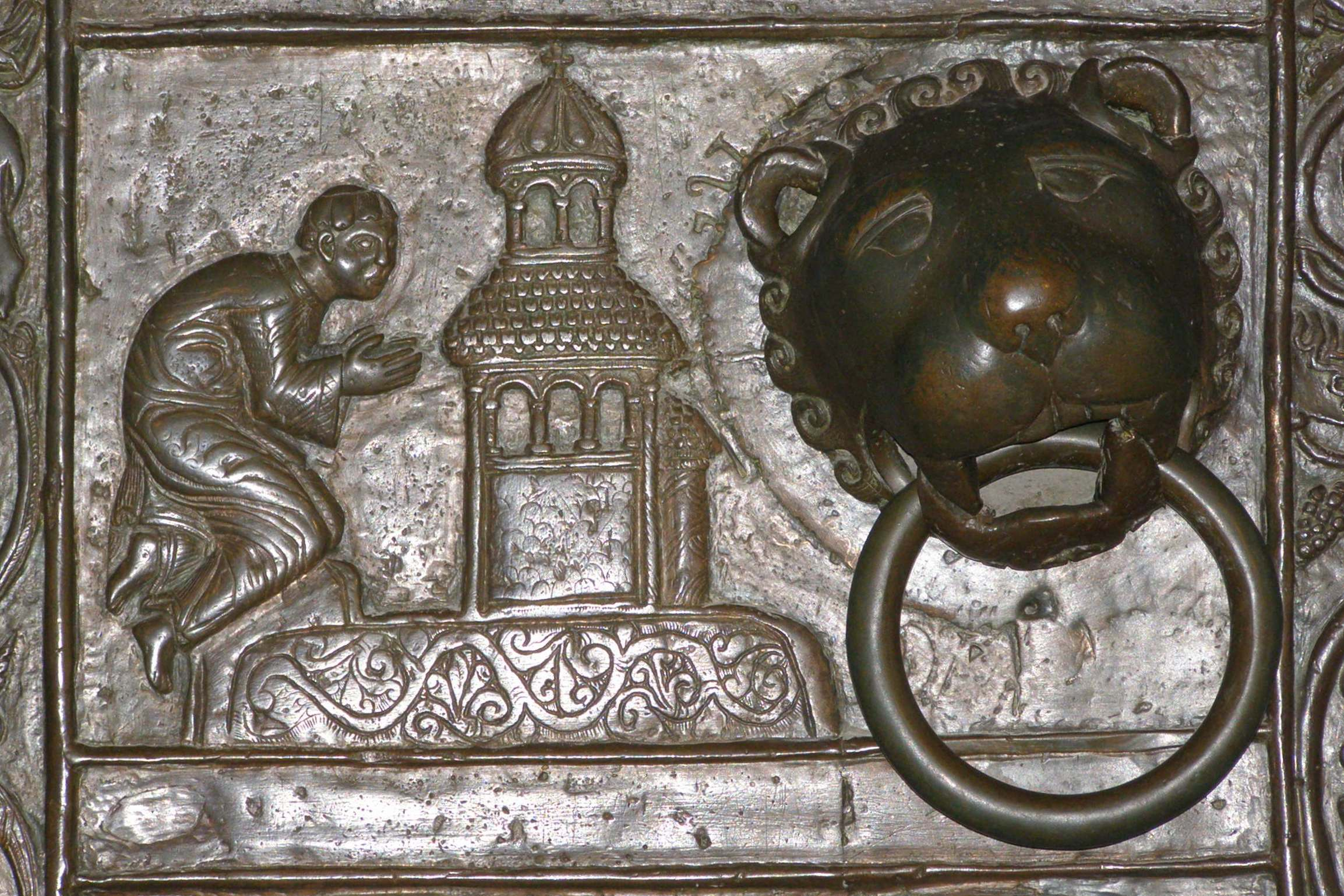 Gniezno Doors